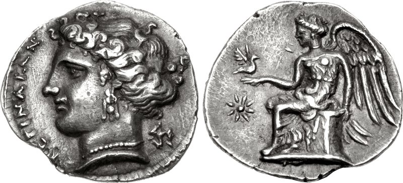 Bruttium, Terina. Circa 300 BC. AR Drachm (17mm, 2.33 g, 11h) Head of the nymph Terina left, wearing triple-pendant earring and beaded necklace; TEPIN[AIΩN] to left, triskeles behind neck Nike seated left on plinth, holding out right hand upon which a small bird alights, left hand resting on plinth; star to left.